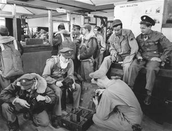 Enlisted men of Base Photo drawing cameras to go up in a Beechraft AT-11 on bomb-spotting missions at Roswell Army Flying School, Roswell, N.M.